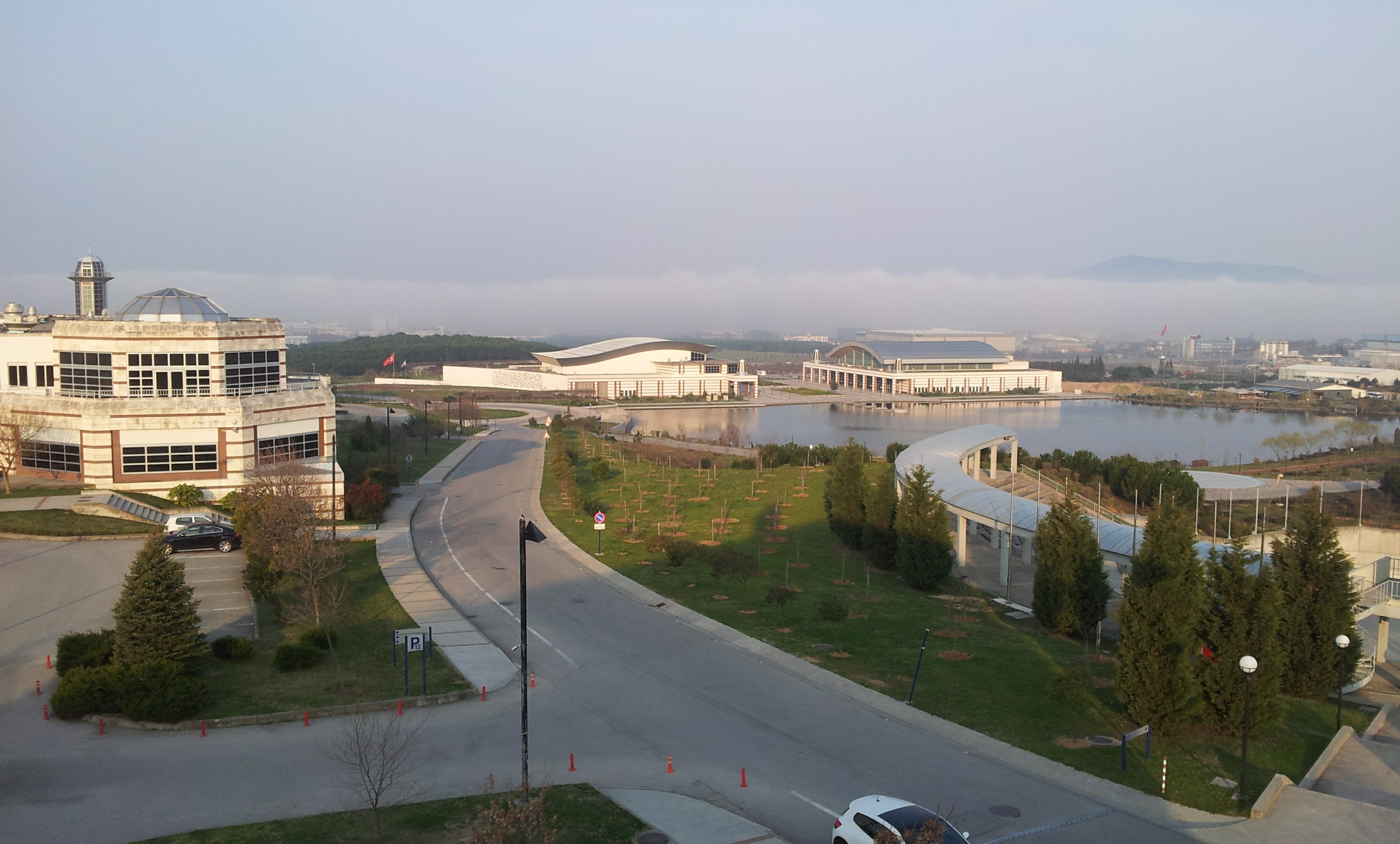 View from B2 dormitories; Faculty of Management, Performing Arts Center, Lake, Sports Center, Amphitheatre.